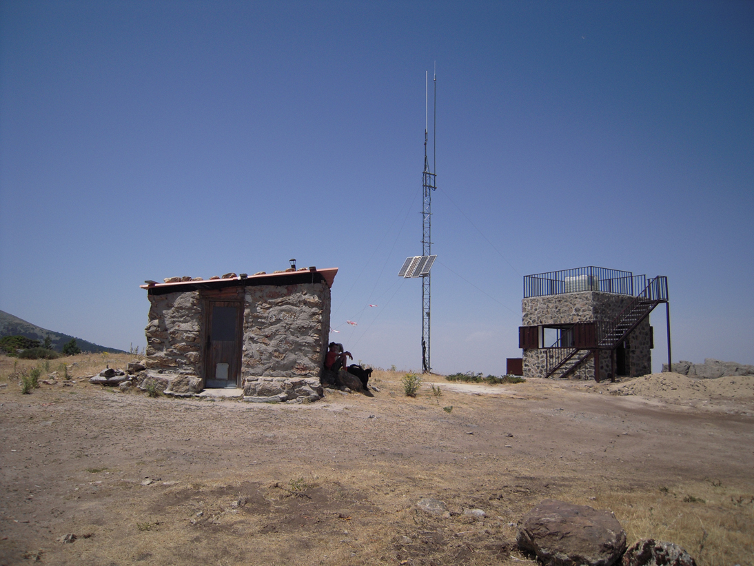 This is the hut that you will find on the Cerro de la Camorca, in San Ildefonso (Segovia, Spain)